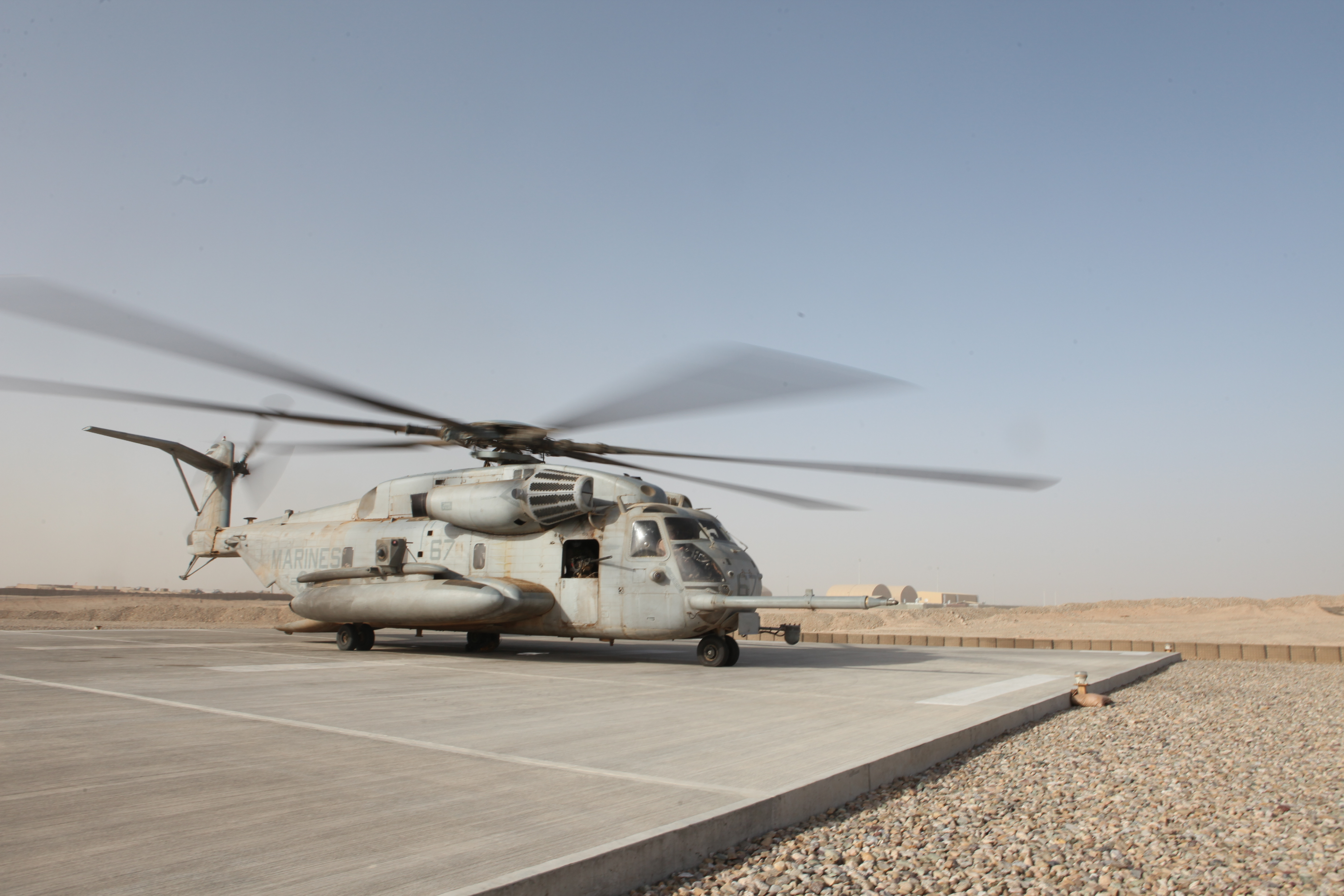 A U.S. Marine Corps CH-53E Super Stallion with Marine Heavy Helicopter Squadron (HMH) 361, Marine Aircraft Group 16, 3rd Marine Aircraft Wing (Forward), sits on a landing pad in Helmand province, Afghanistan, Dec. 29, 2012. HMH-361 prepared to conduct a cargo lift to Shukvani and provide aerial support by repositioning the M777 howitzers to Camp Dwyer. (U.S. Marine Corps photo by Sgt. Keonaona C. Paulo/Released) Unit: Regional Command Southwest